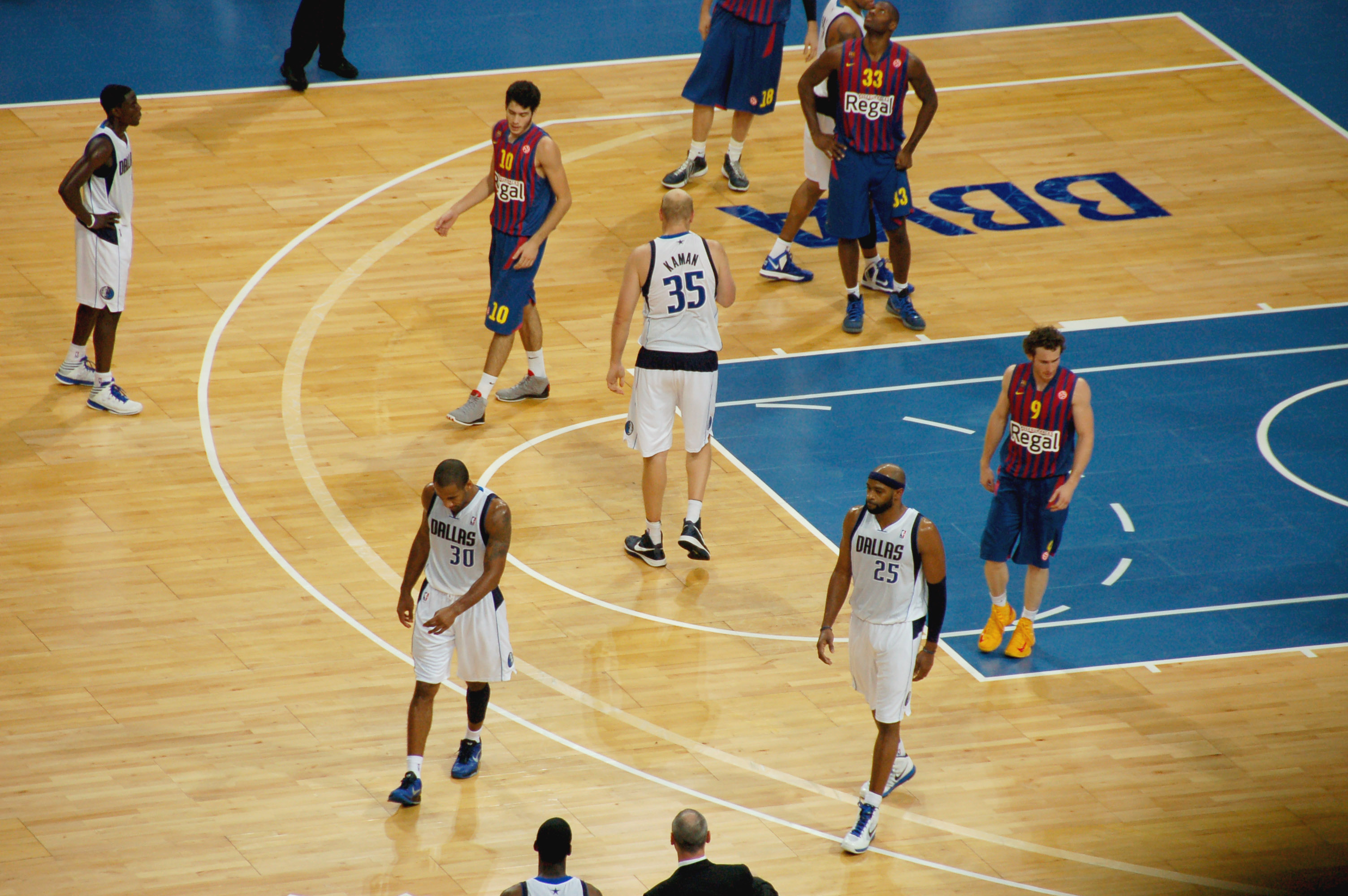 basektball, nba-preseason, 10/9/2012